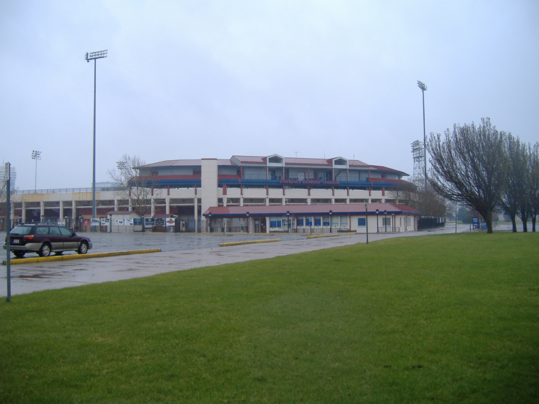 Lawrence-Dumont Stadium in Wichita, Kansas. Home of the Wichita Wingnuts minor league baseball team.